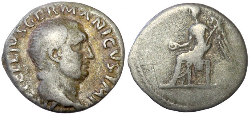 Vitellius Denarius with Victory reverse. Dated 69 AD